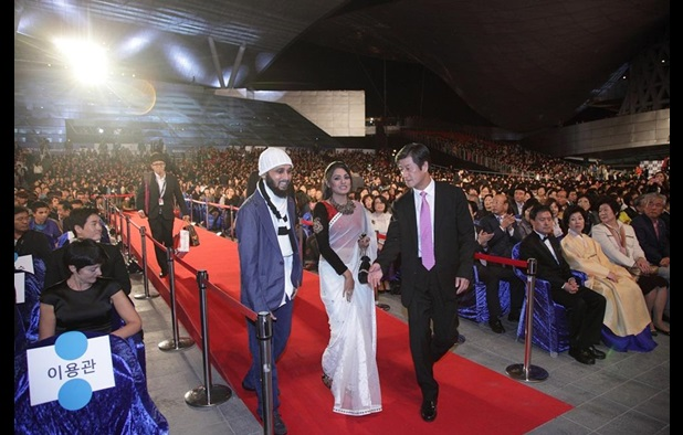 Nusrat Imrose Tisha at 17th Busan International Film Festival red carpet program